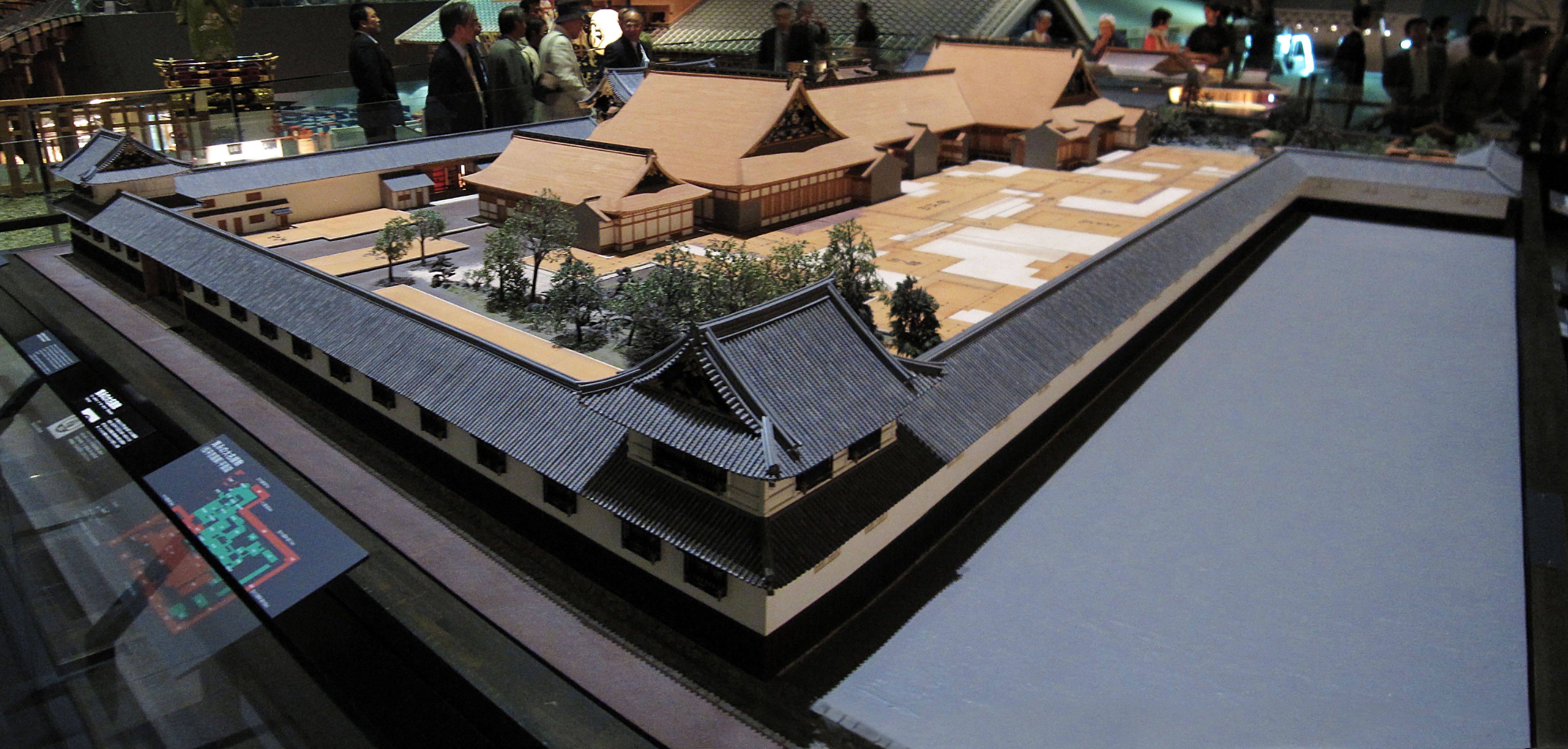 1:30 architectural model of the residence of the daimyo Matsudaira Tadamasa, at the Edo-Tokyo Museum. Some of the minor structures have been left out in the model in order to highlight the main buildings in the back. The minor buildings included servants quarters, storage, stables, etc. and their position is indicated by the beige layout on the white ground.